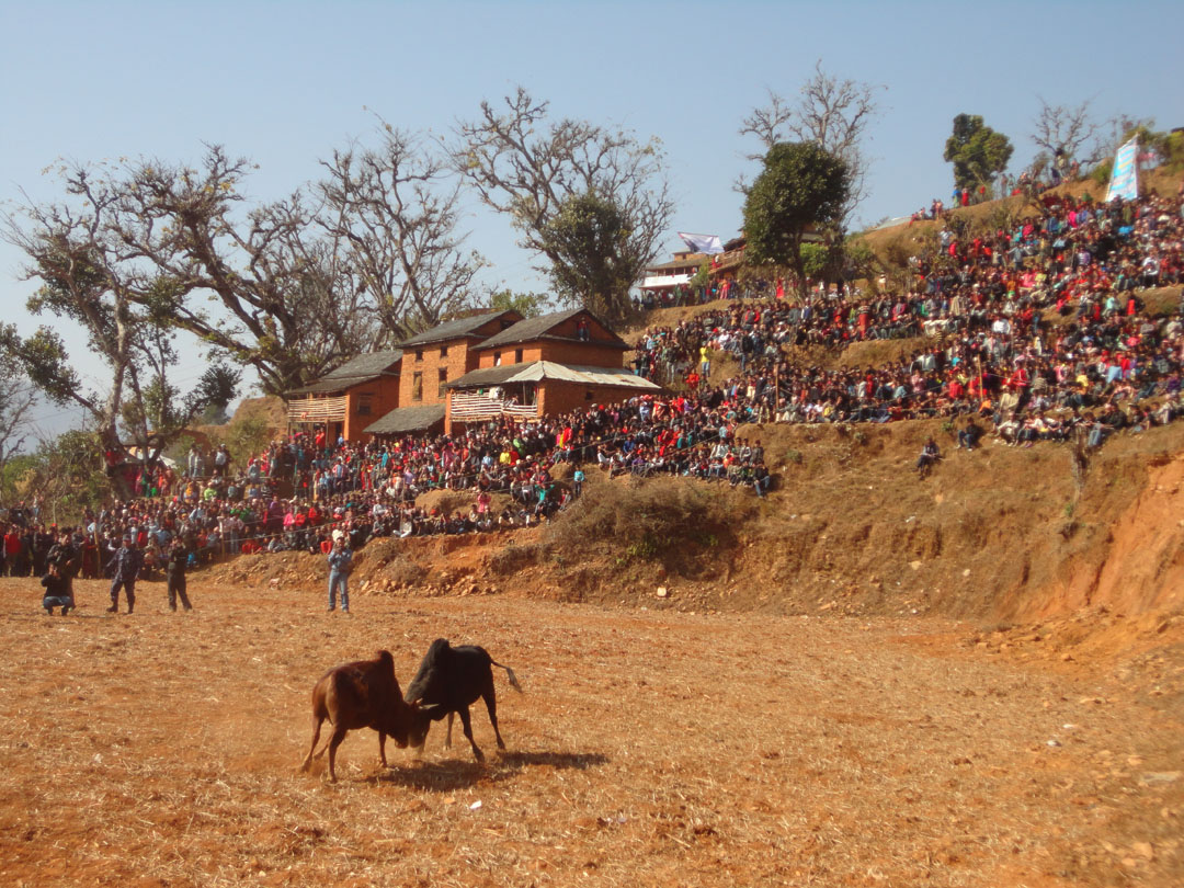 A cultural festival of Nepal that occur on the first day of month of Magha.